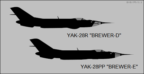 Side-view silhouettes of the Yakovlev Yak-28R and Yak-28PP